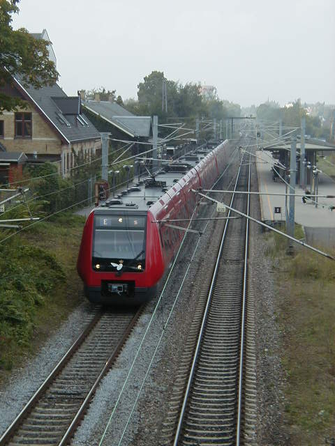 Danish railway station, Gentofte Station